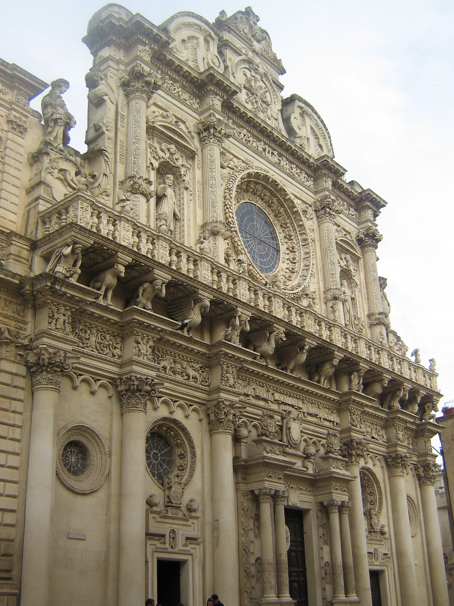 Facade of the Basilica in Santa Croce, Ragusa, Sicily, Italy